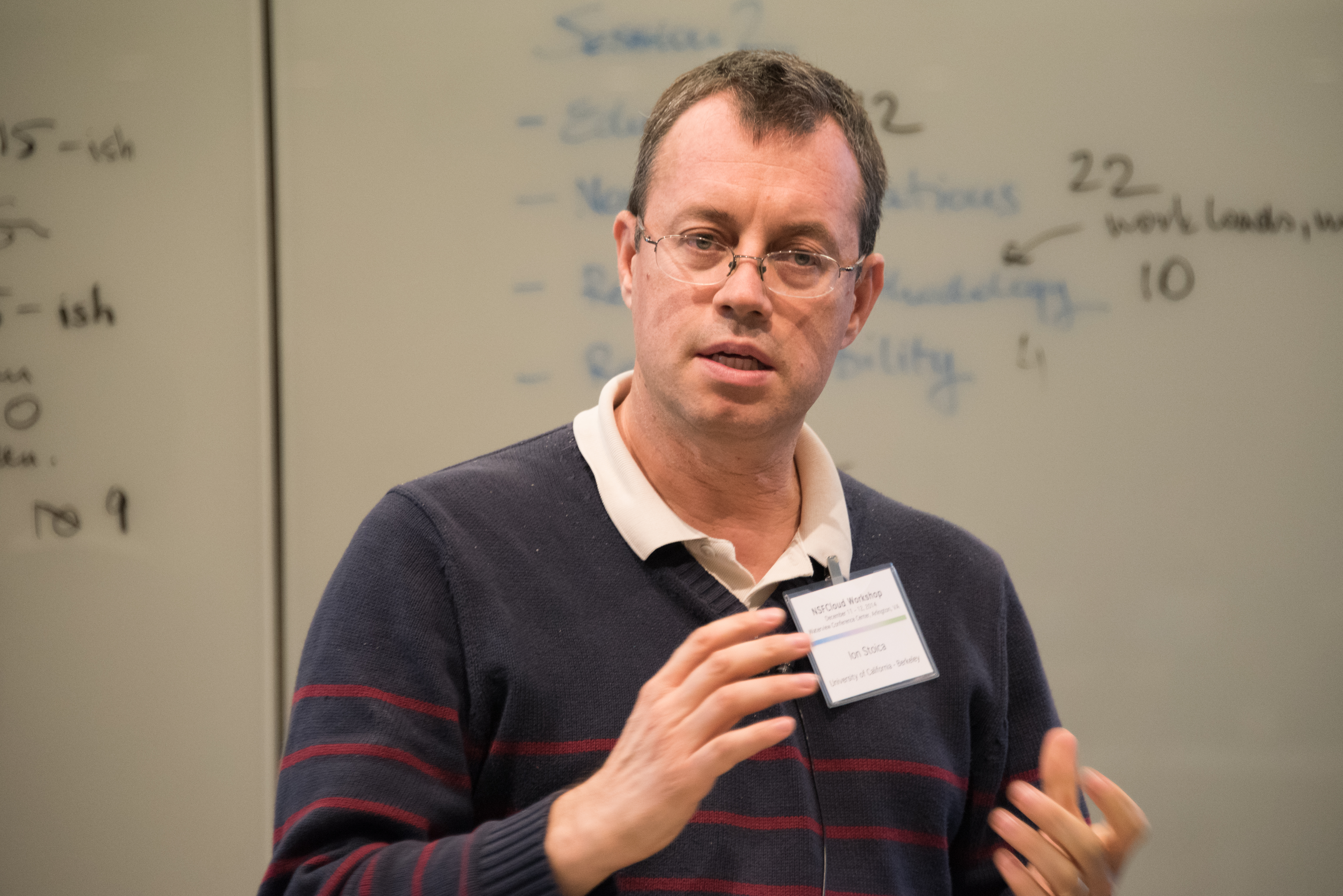 Professor Ion Stoica